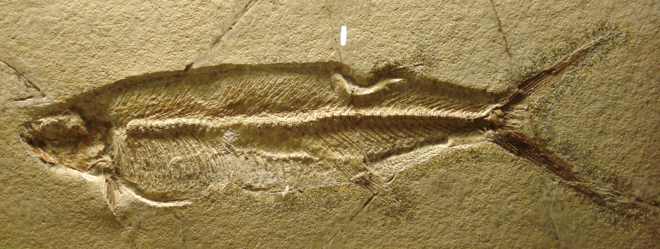 fossil of thrissops